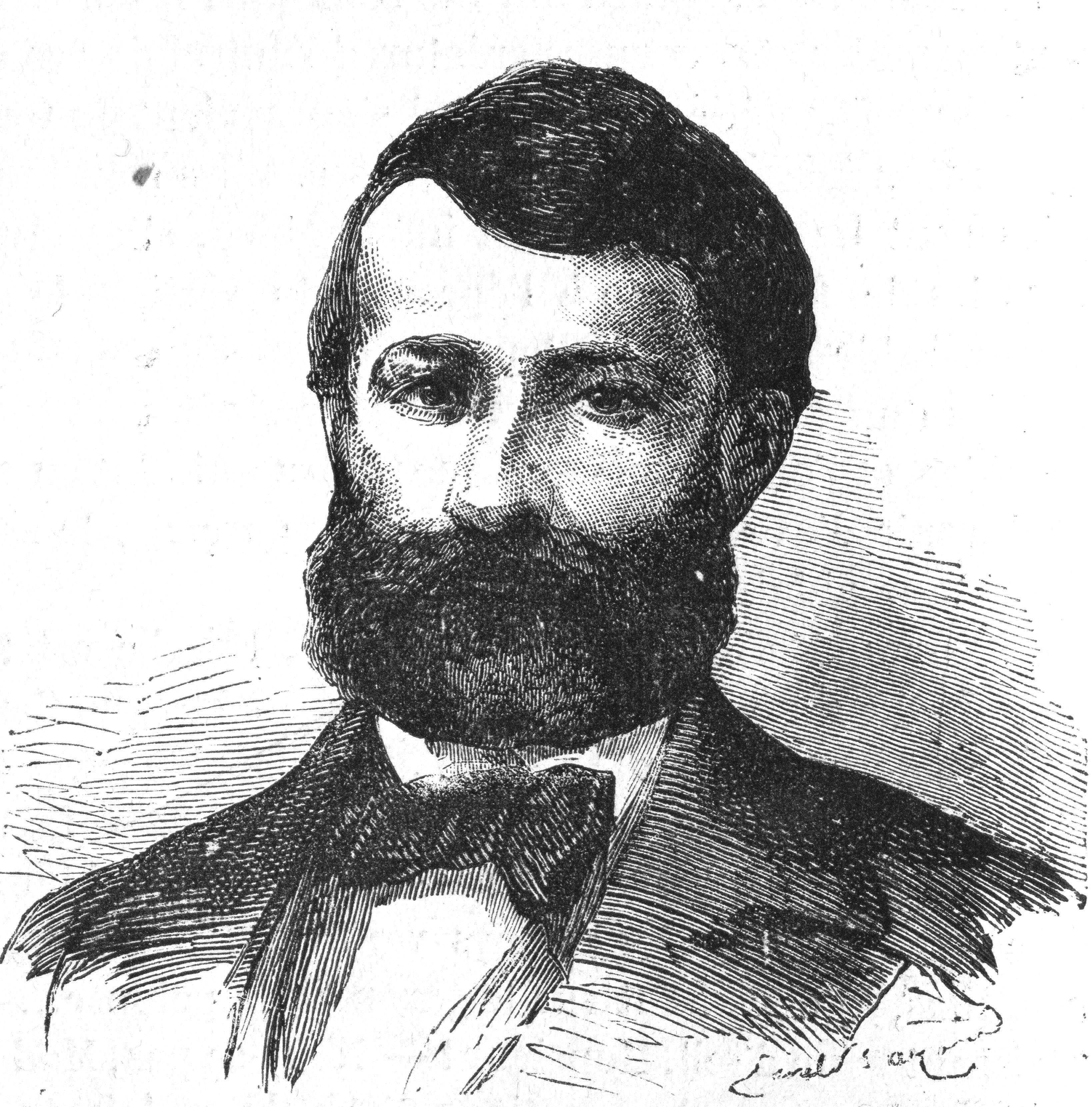 L'Illustration 1862 gravure ministre Quentino Sella